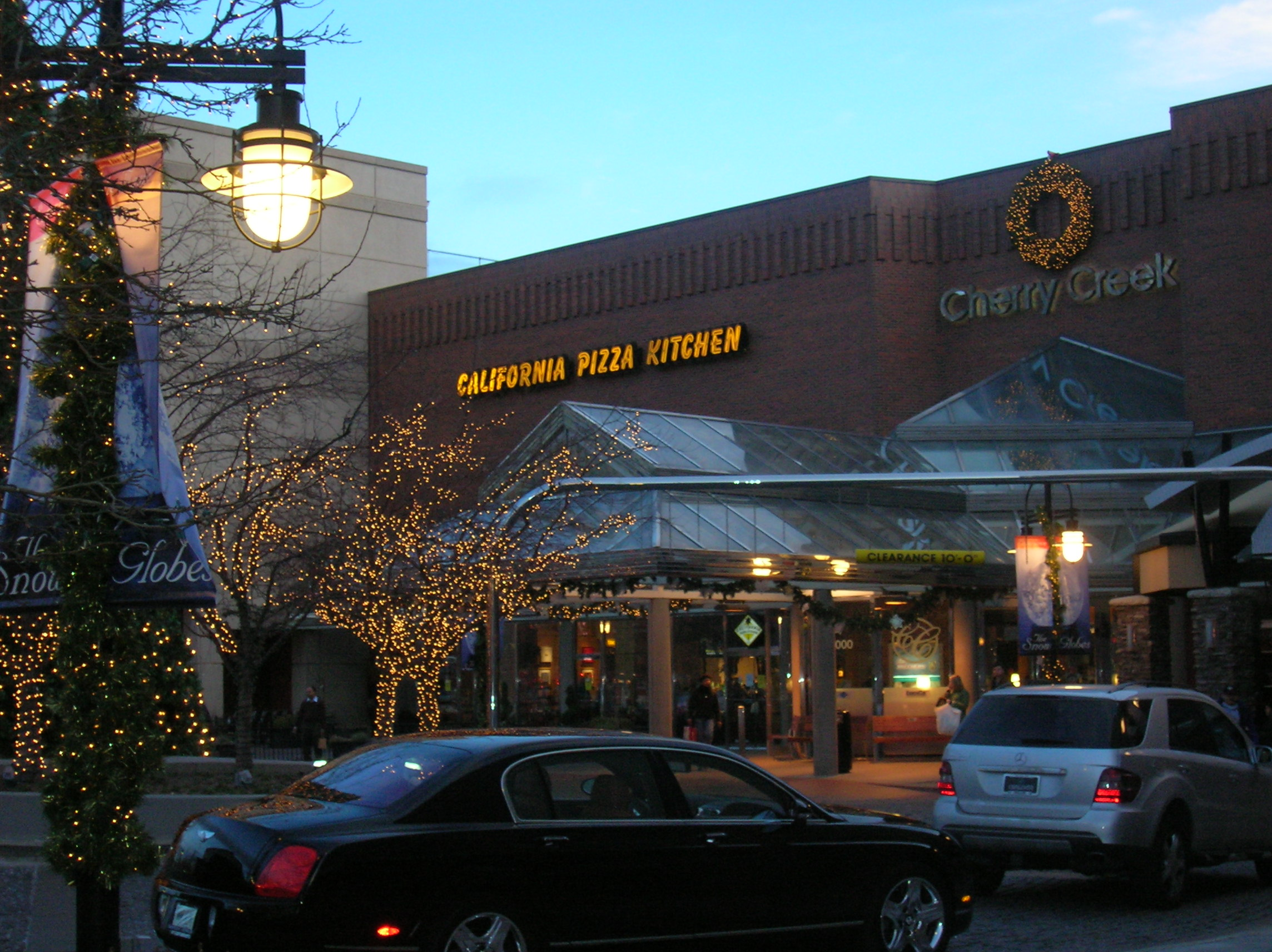 Cherry Creek Shopping Center during the holiday season